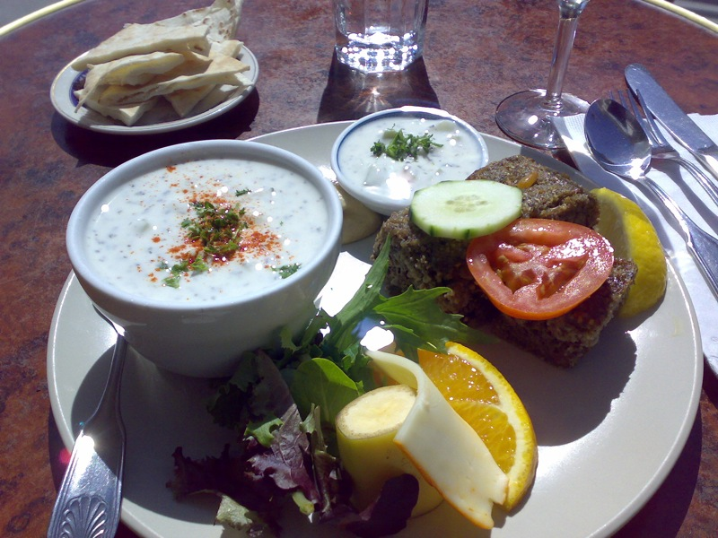 Baked kibbeh with cucumber/yoghurt soup at La Mediterranee